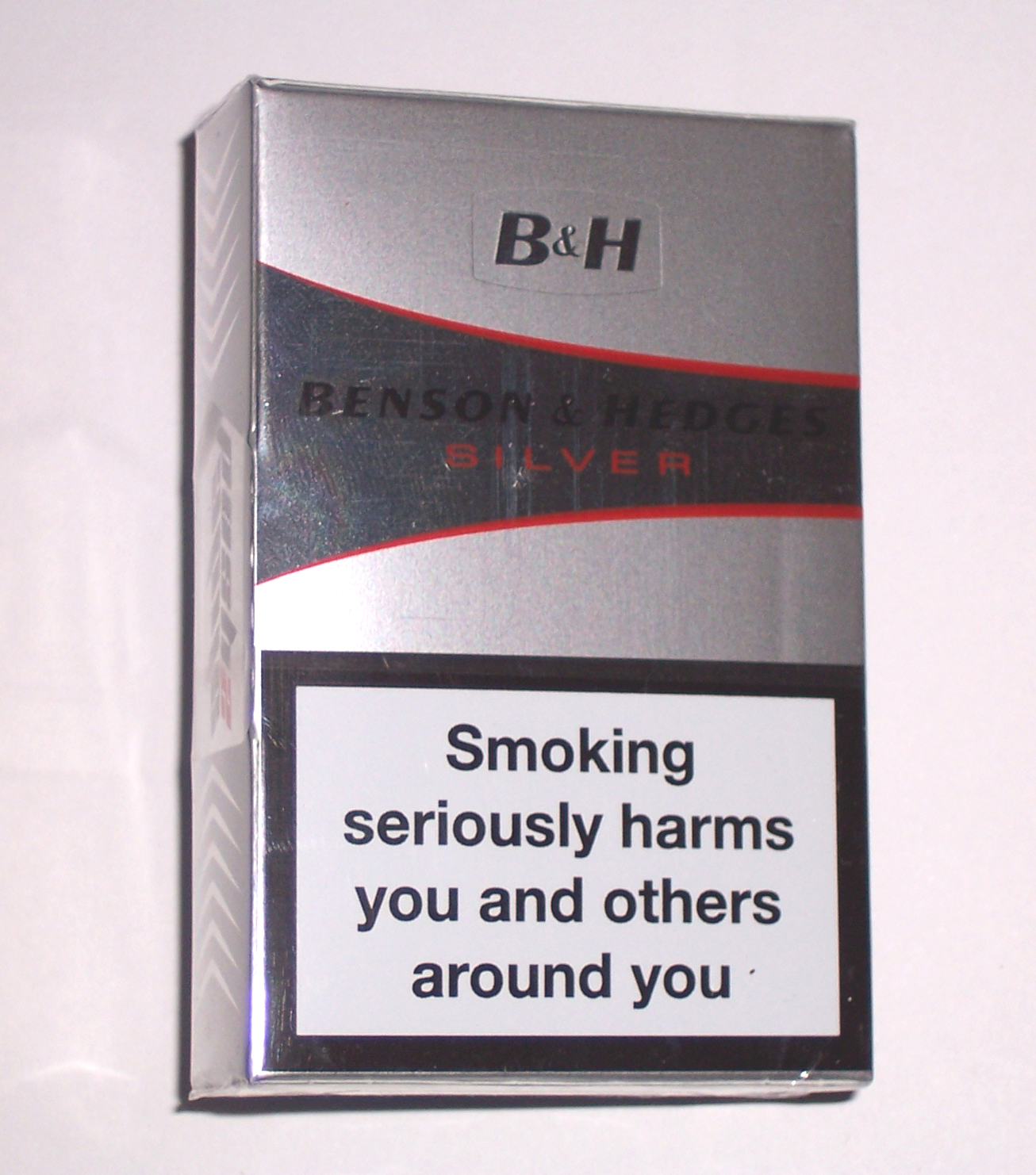 Benson & Hedges, Silver, 20, unopened.